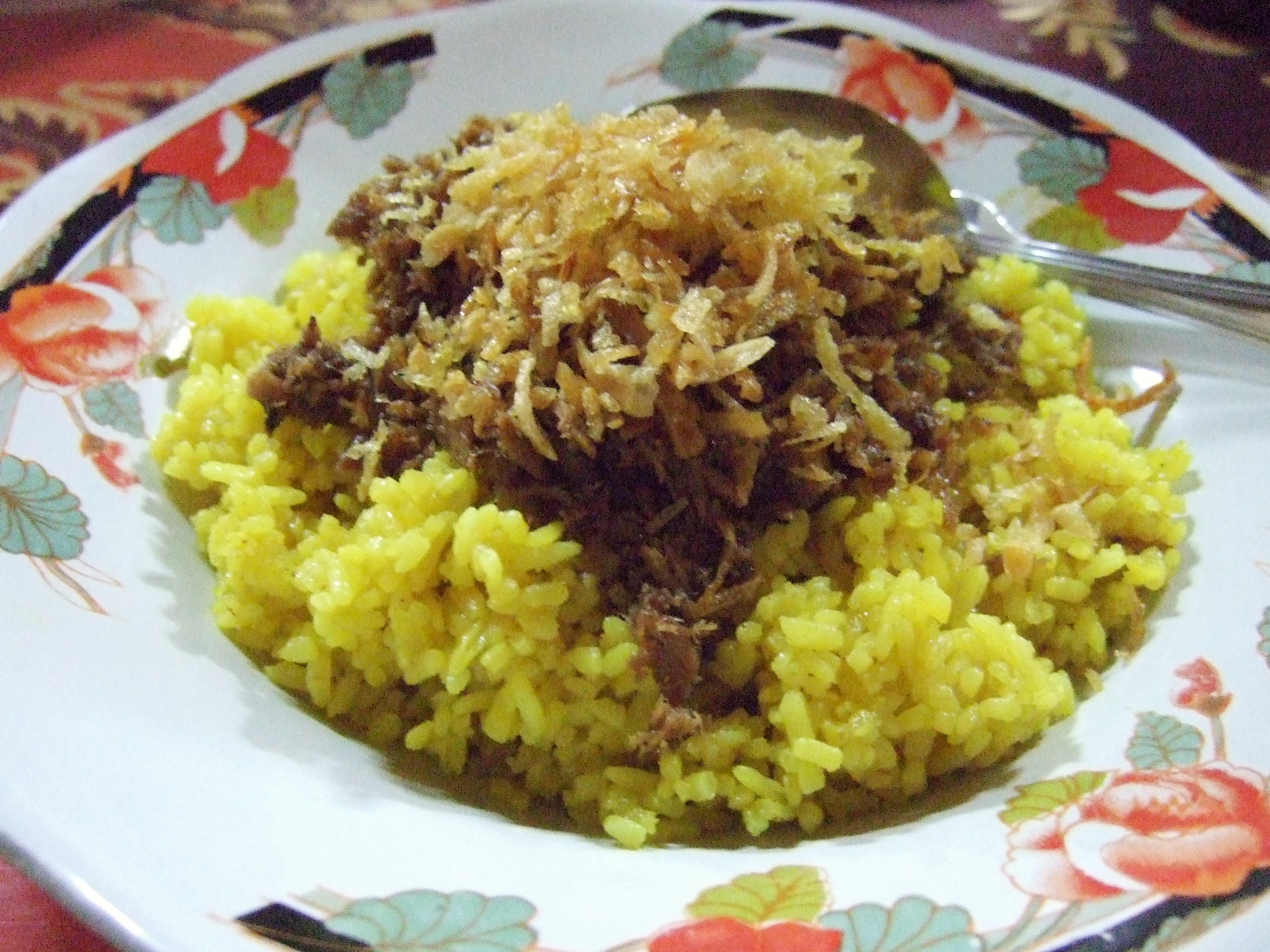 Nasi Kuning, rice cooked with lemon grass and turmeric